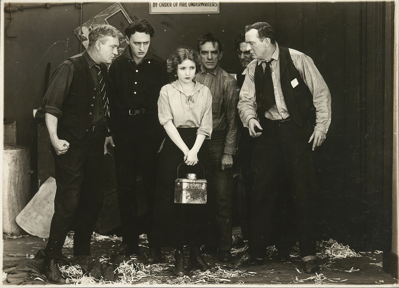 A Daughter of the Poor is a 1917 silent film produced by Fine Arts Film Company and released by Triangle Film Corporation. The film was directed by Edward Dillon and starred young Bessie Love. It is now lost.